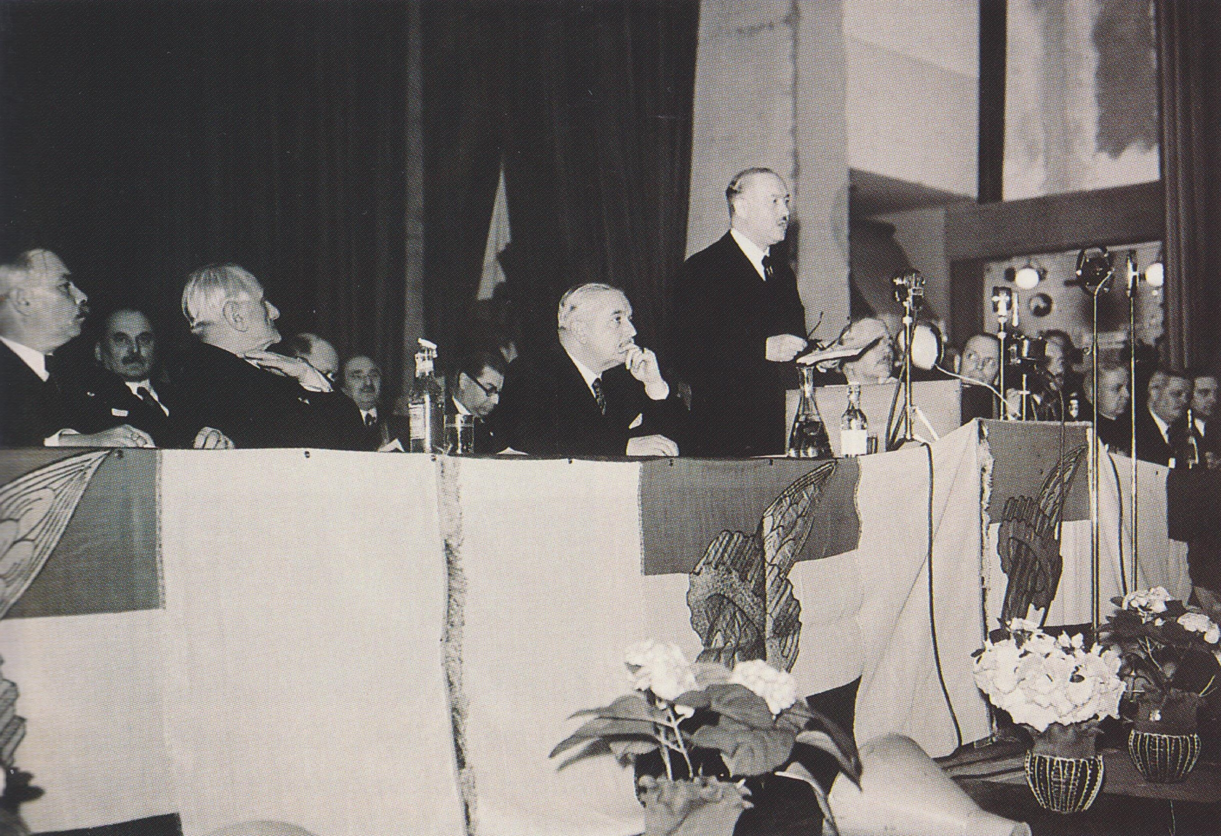 Kálmán Darányi announced the Programme of Győr in March 1938.